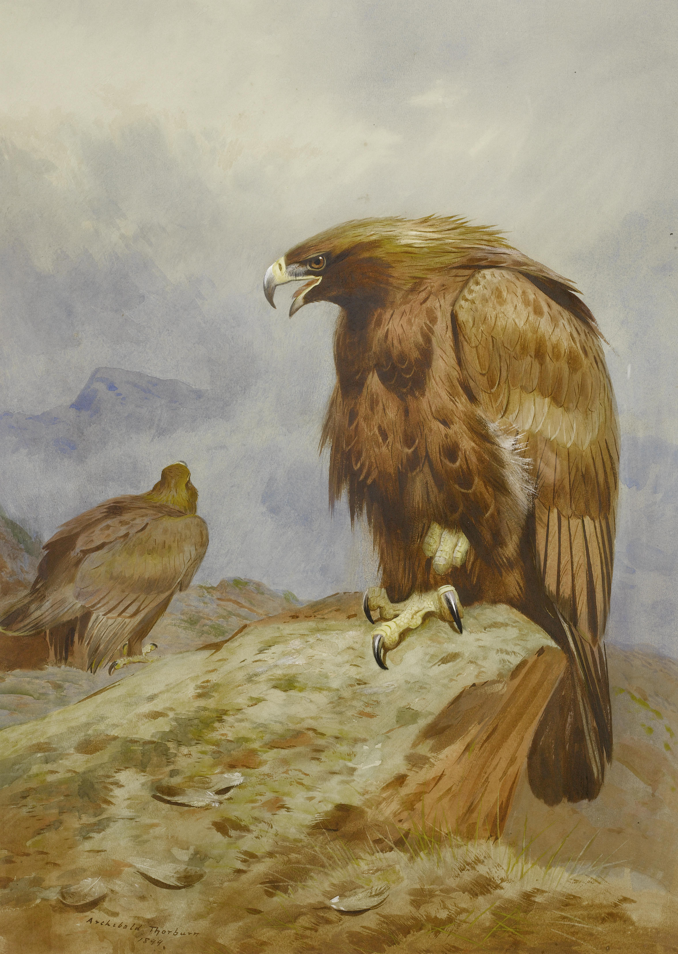 Pair of Golden Eagles, painting by Archibald Thorburn